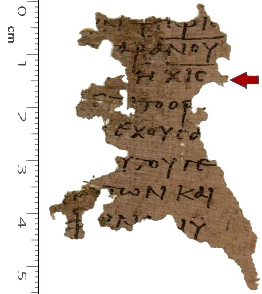 Oxyrhynchus Papyrus 4499/P115. This volume of Oxyrhynchus Papyri contains a fragmentary papyrus of Revelation which is the earliest known witness to some sections (late third / early fourth century). One feature of particular interest is the number that this papyrus assigns to the Beast: 616, rather than the usual 666. (665 is also found.) We knew that this variant existed: Irenaeus cites (and refutes) it. But this is the earliest instance that has so far been found. The number — chi, iota, stigma (hexakosiai deka hex) — is in the third line of the fragment shown below.